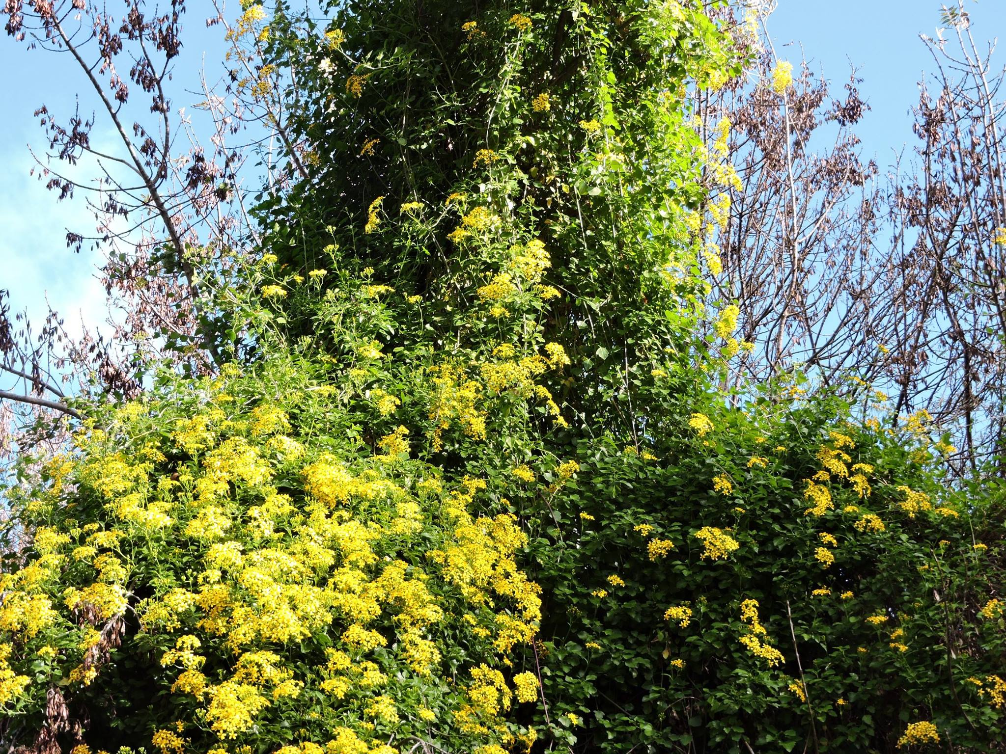 A vigorous scrambling vine that produces yellow flowers